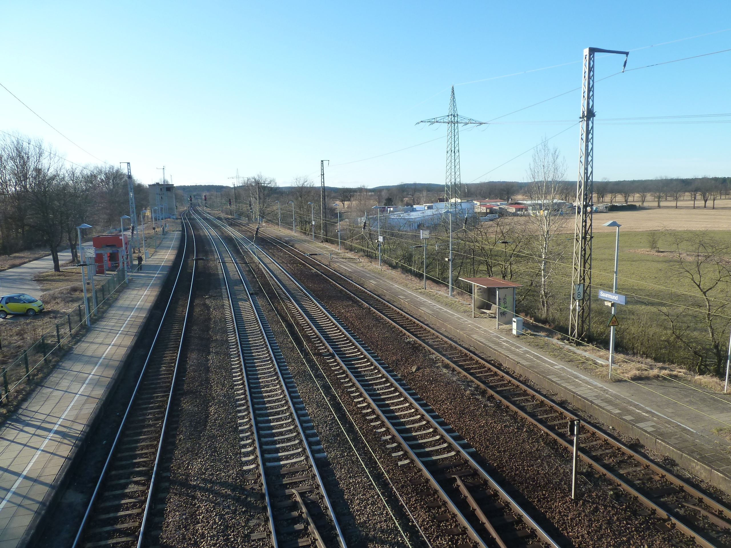 Saarmund railway station. West view from pedestrian bridge